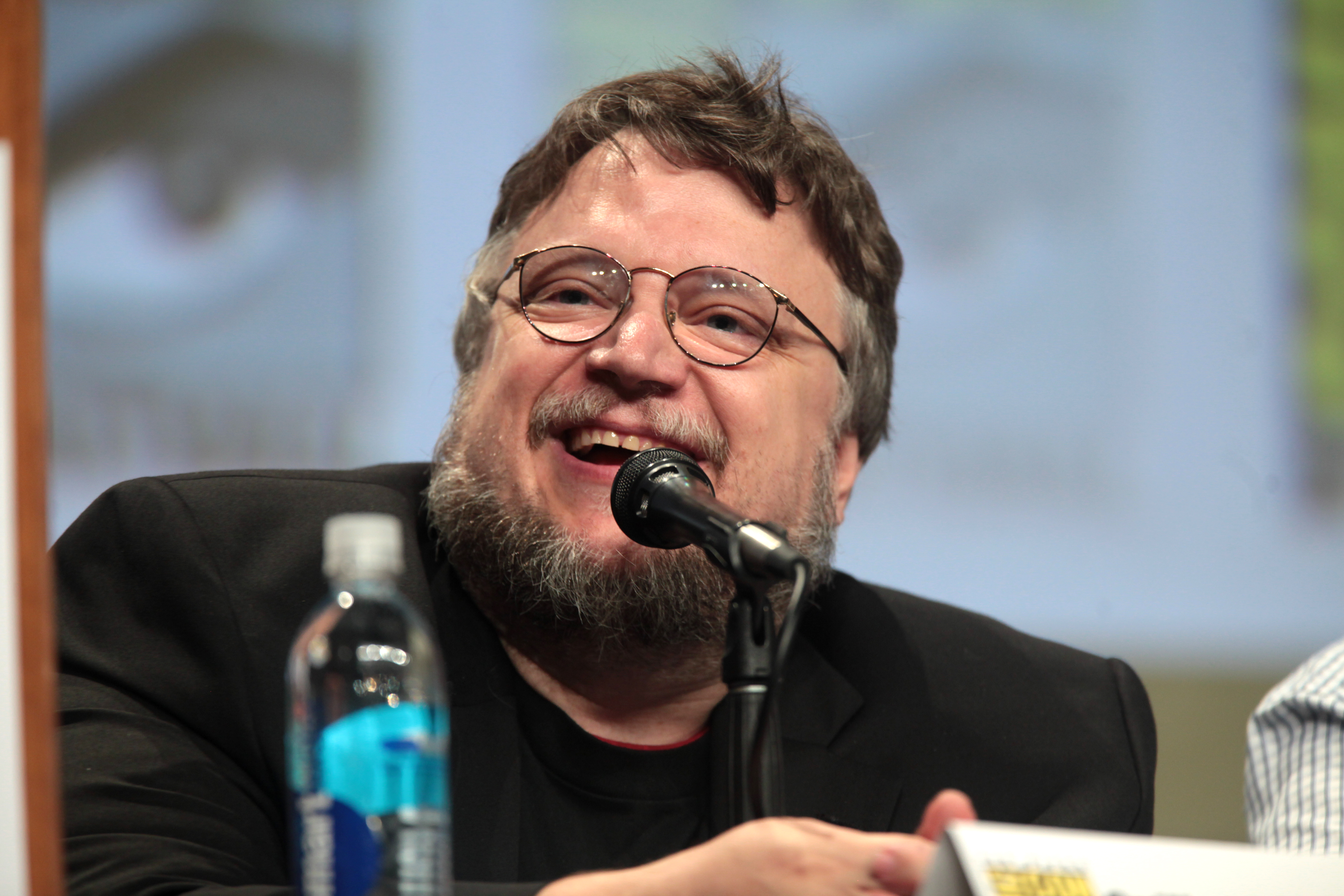 Guillermo del Toro speaking at the 2014 San Diego Comic Con International, for "The Strain", at the San Diego Convention Center in San Diego, California.